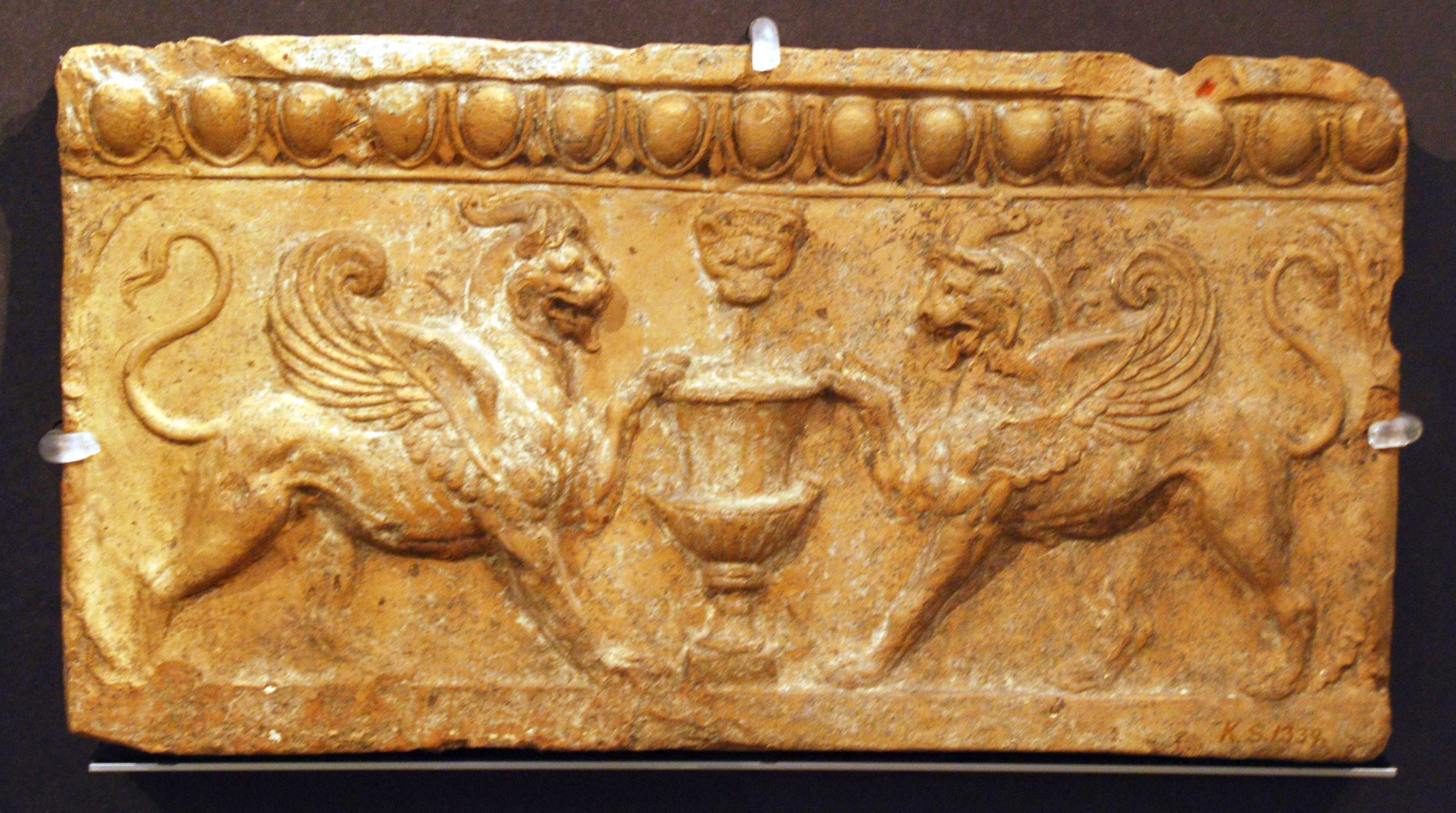 Sima of a Campana plaque in the Museum August Kestner in Hannover (Inv.-Nr. 1339): two Griffins; Clay